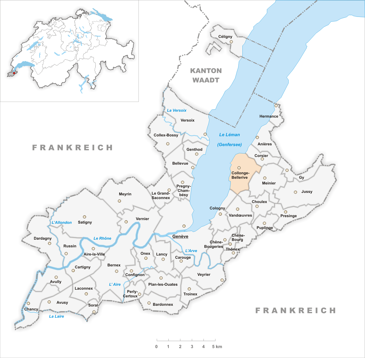 Municipality Collonge-Bellerive